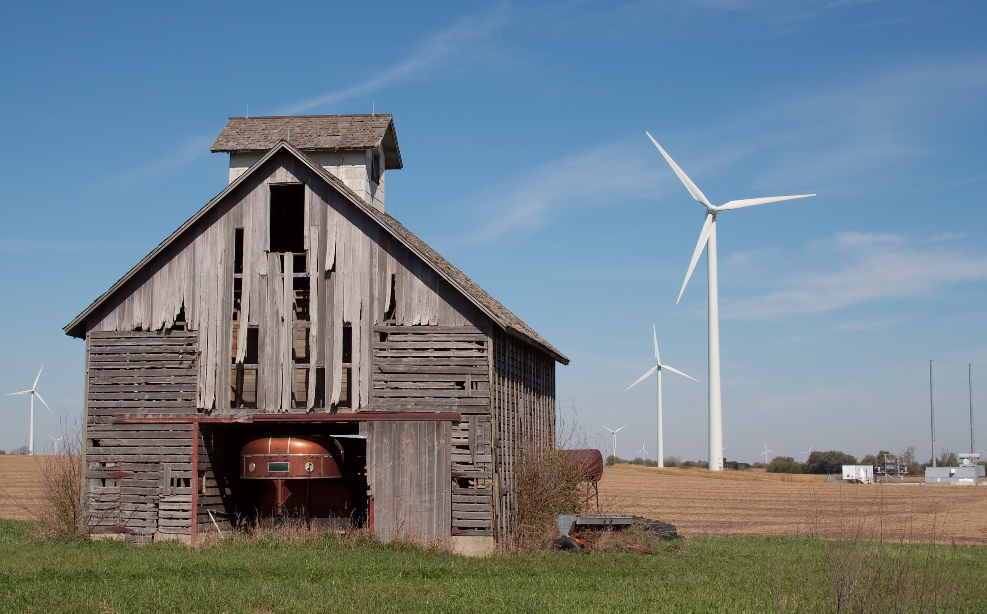 A barn and wind turbines in rural Illinois